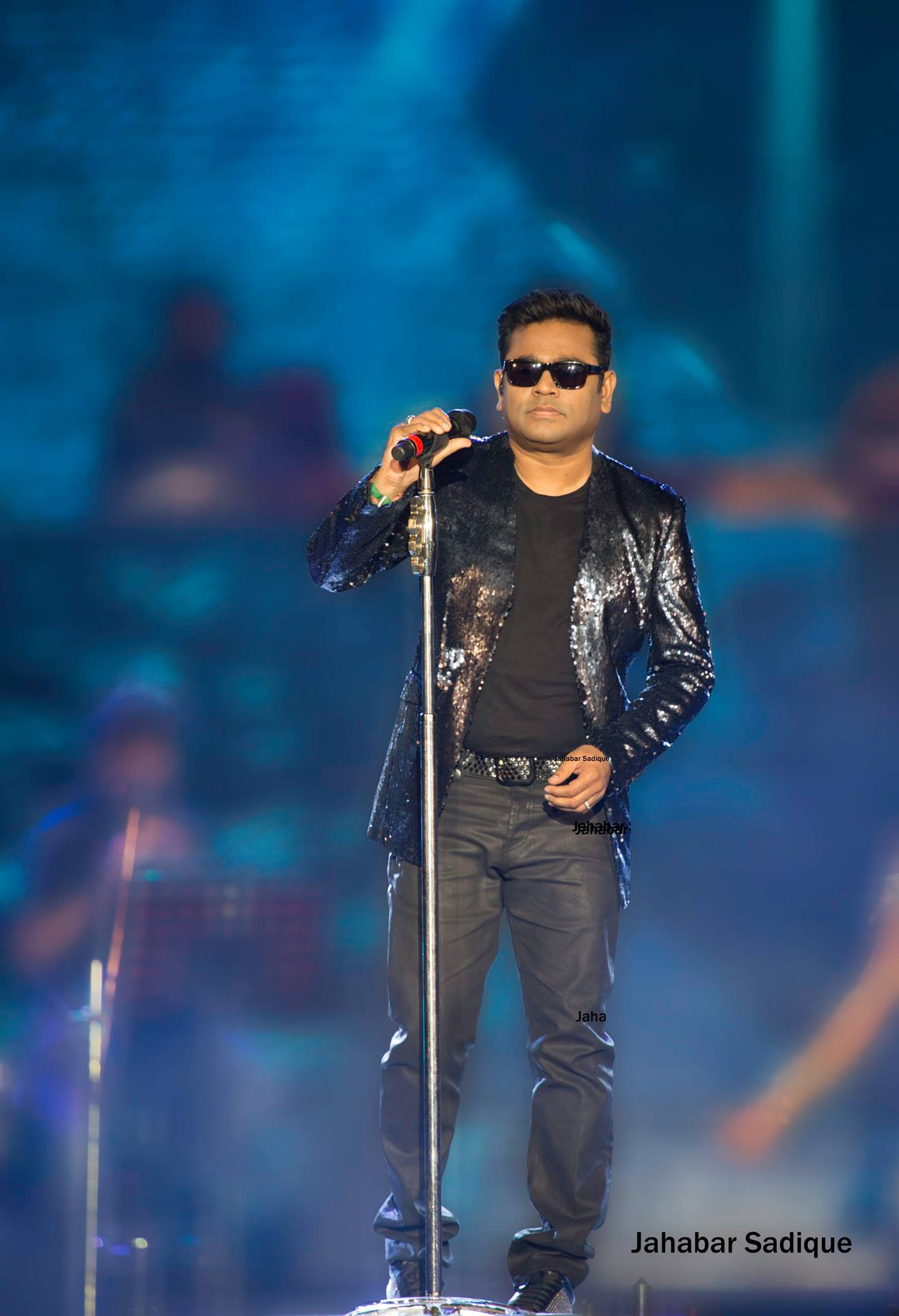 Chennai Concert